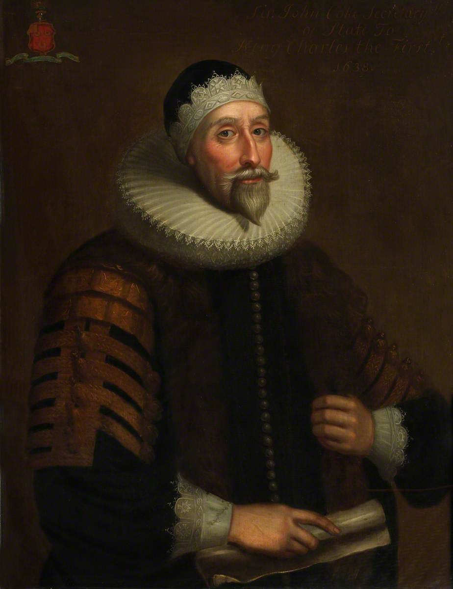 Portrait of John Coke